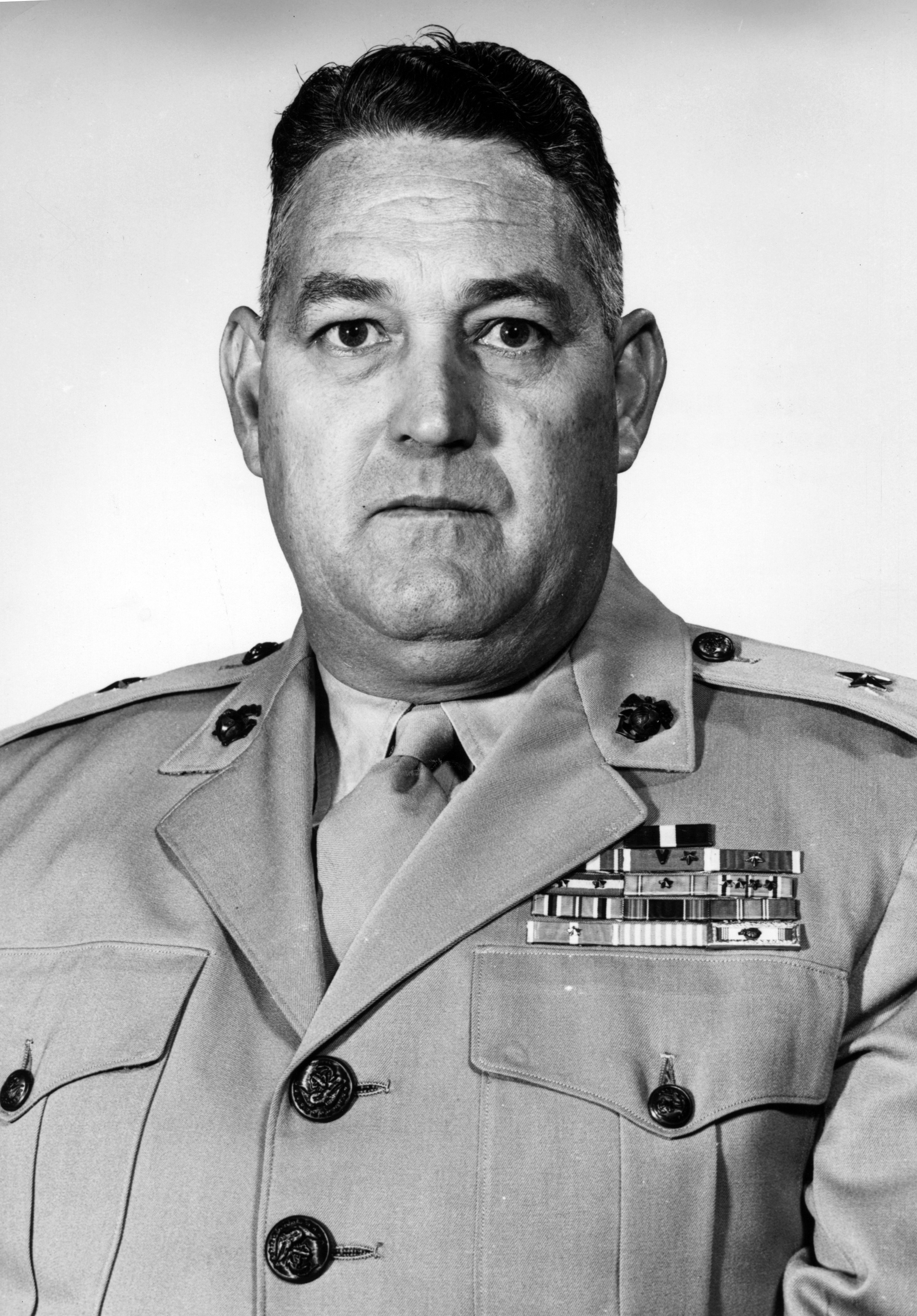 Austin Roger Brunelli (August 20, 1907 - September 23, 1989) was a highly decorated combat veteran of World War II and Korea War who is most noted as Commanding officer of 1st Battalion, 24th Marines during Battle of Iwo Jima, where he won Navy Cross, the United States military's second-highest decoration awarded for valor in combat. He later served as Chief of staff of 1st Marine Division in Korea and Commanding general of Camp Lejeune.